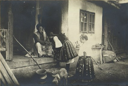 Bulgaria